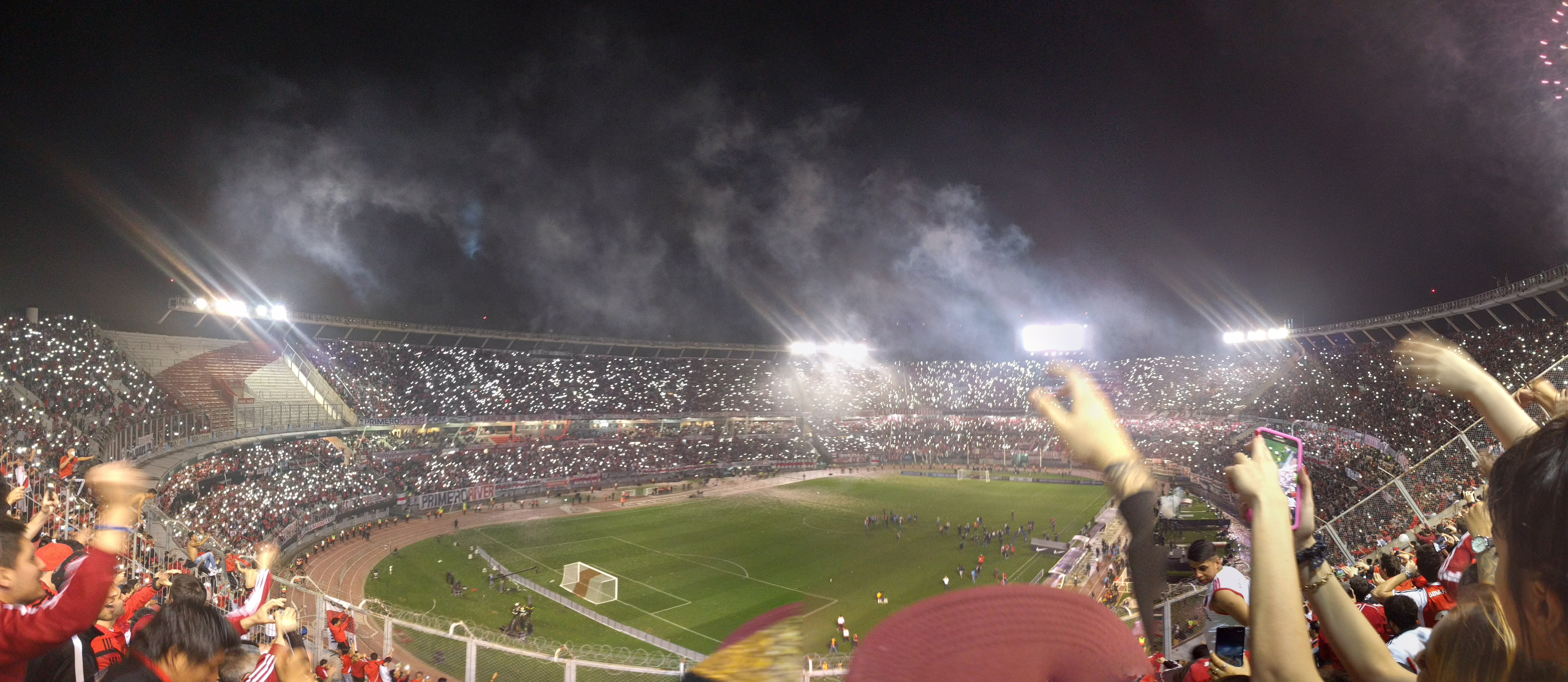 River Plate's Moumental Stadium panorama for the Southamerican Recopa 2016 final River Plate vs. Independiente Santa Fe. View from the Centenario stand.